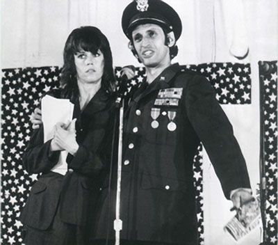 Jane Fonda and Michael Alaimo in the FTA (Fuck The Army) Show 1971.